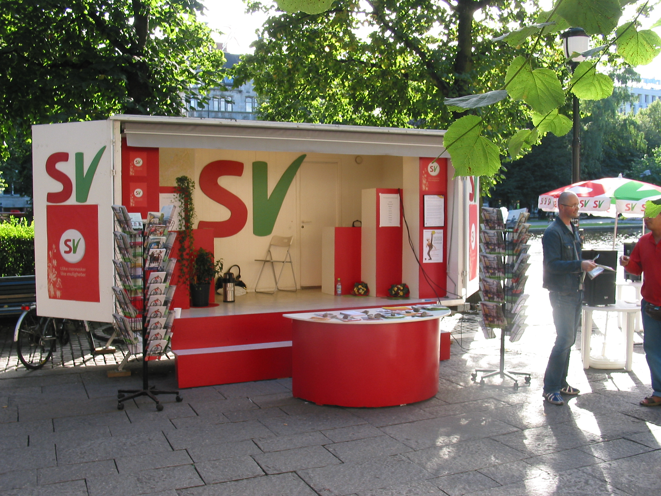 Booth of the Socialist Left Party of Norway (Sosialistisk Venstreparti) during the campaign before the Norwegian local elections, 2007. Karl Johan's street, Oslo, July 2007.